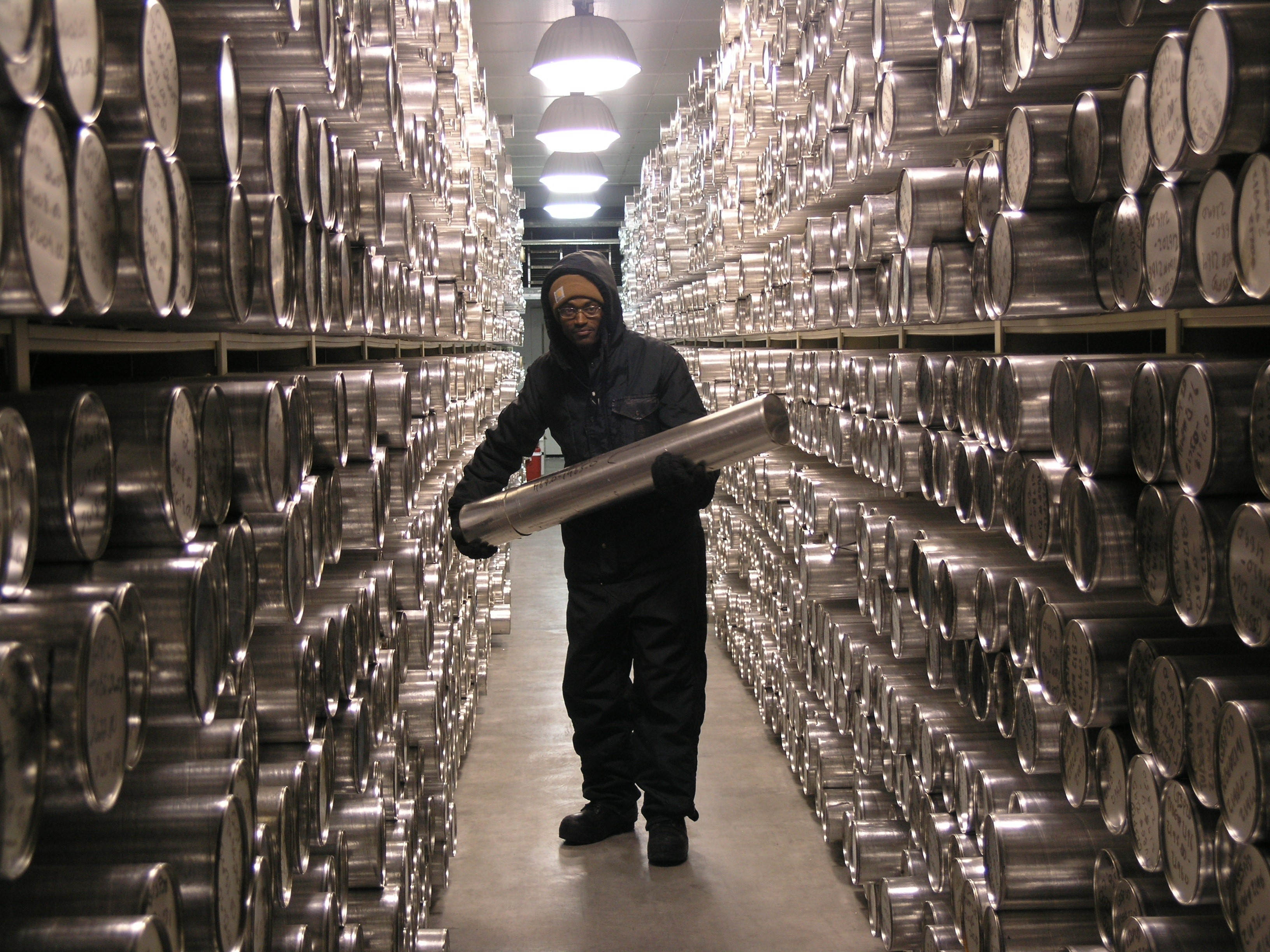 Storage room for global ice core samples